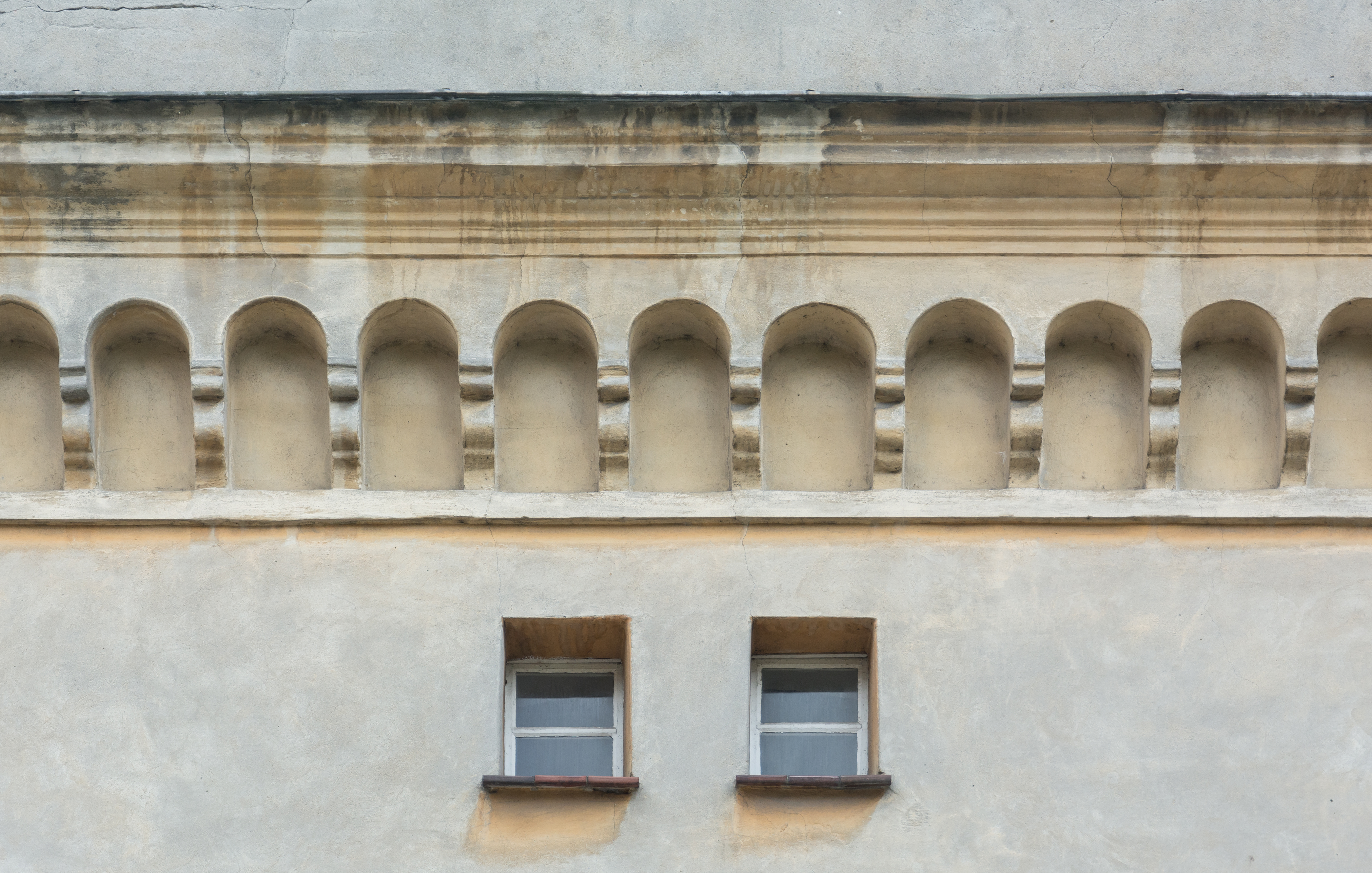 2 Brzegowa Street in Strzelin